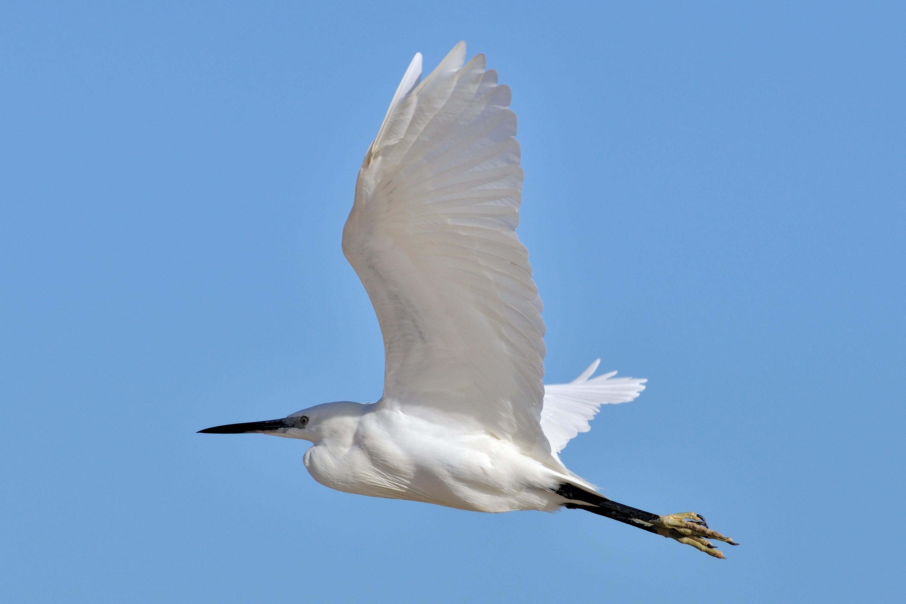 Spain, birds on the beach in Fuerteventura